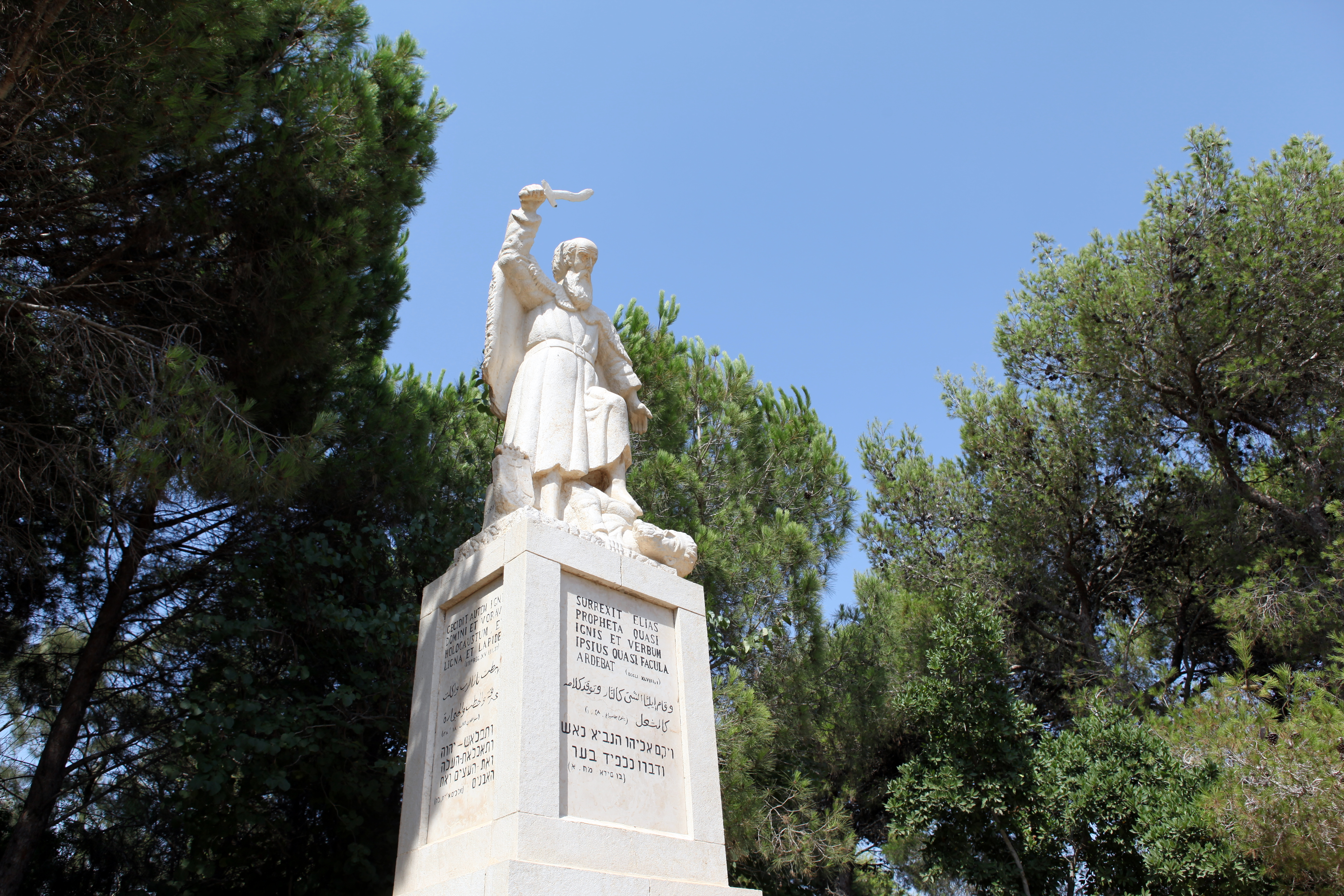 The Muchkraka Mt. Carmel Tiberias